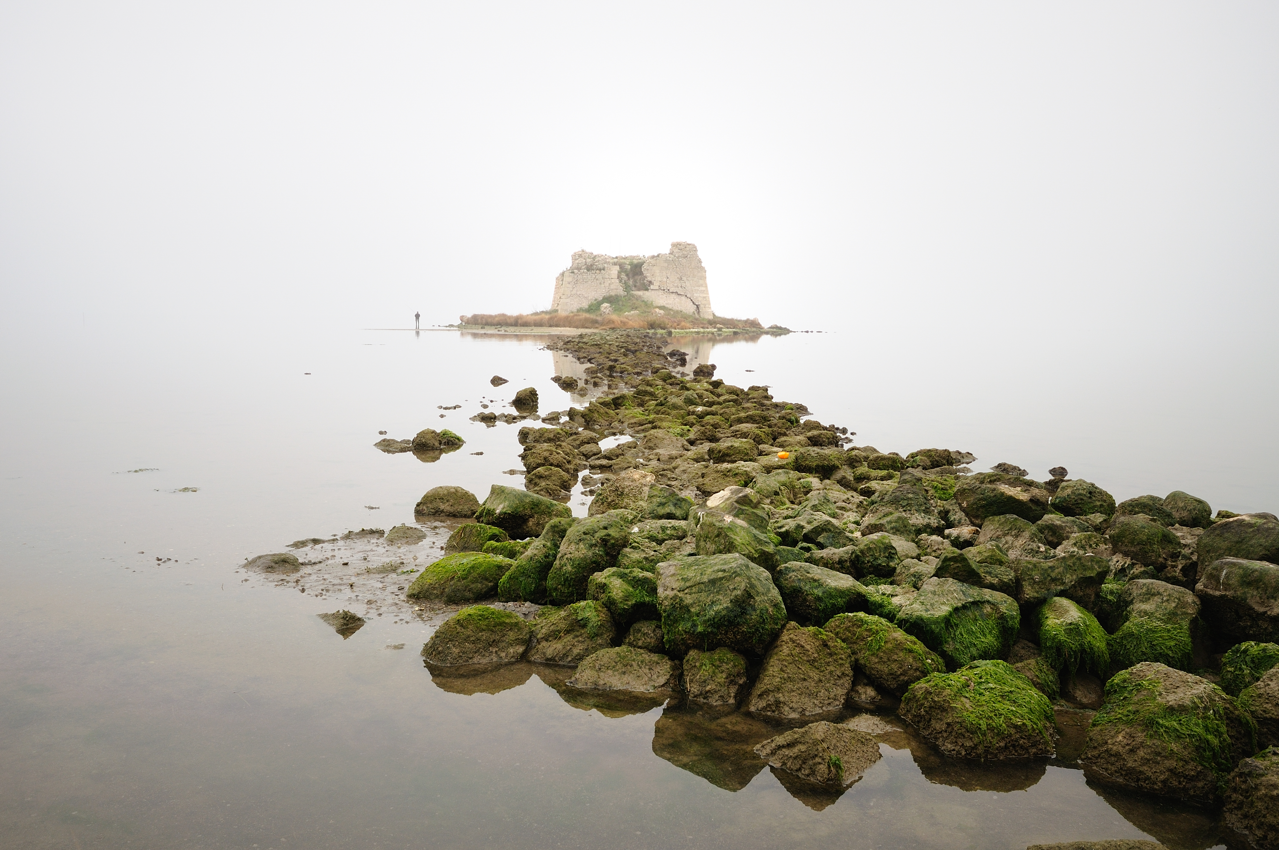 Tower of Saint John in Amposta